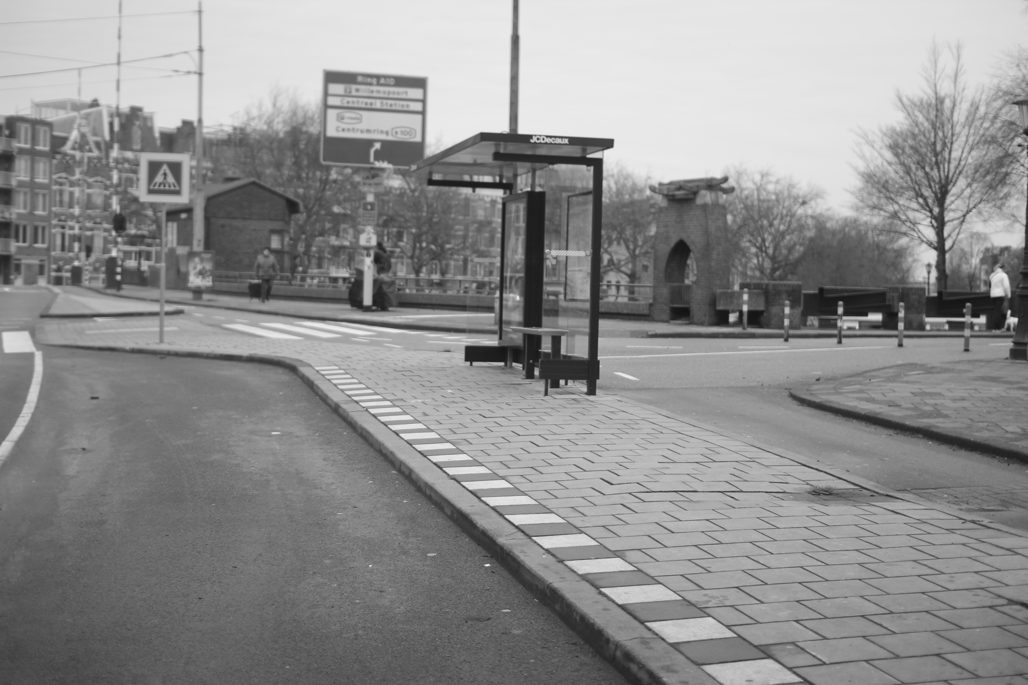 Former terminus of bus 60 on the Nassaukade in Amsterdam, december 2012